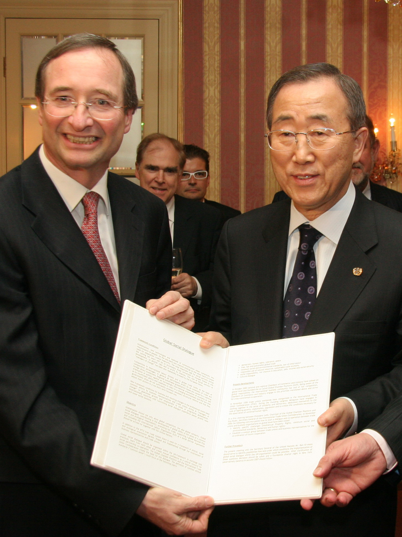 Austrian Politician Christoph Leitl with UN Secretary General Ban Ki Moon